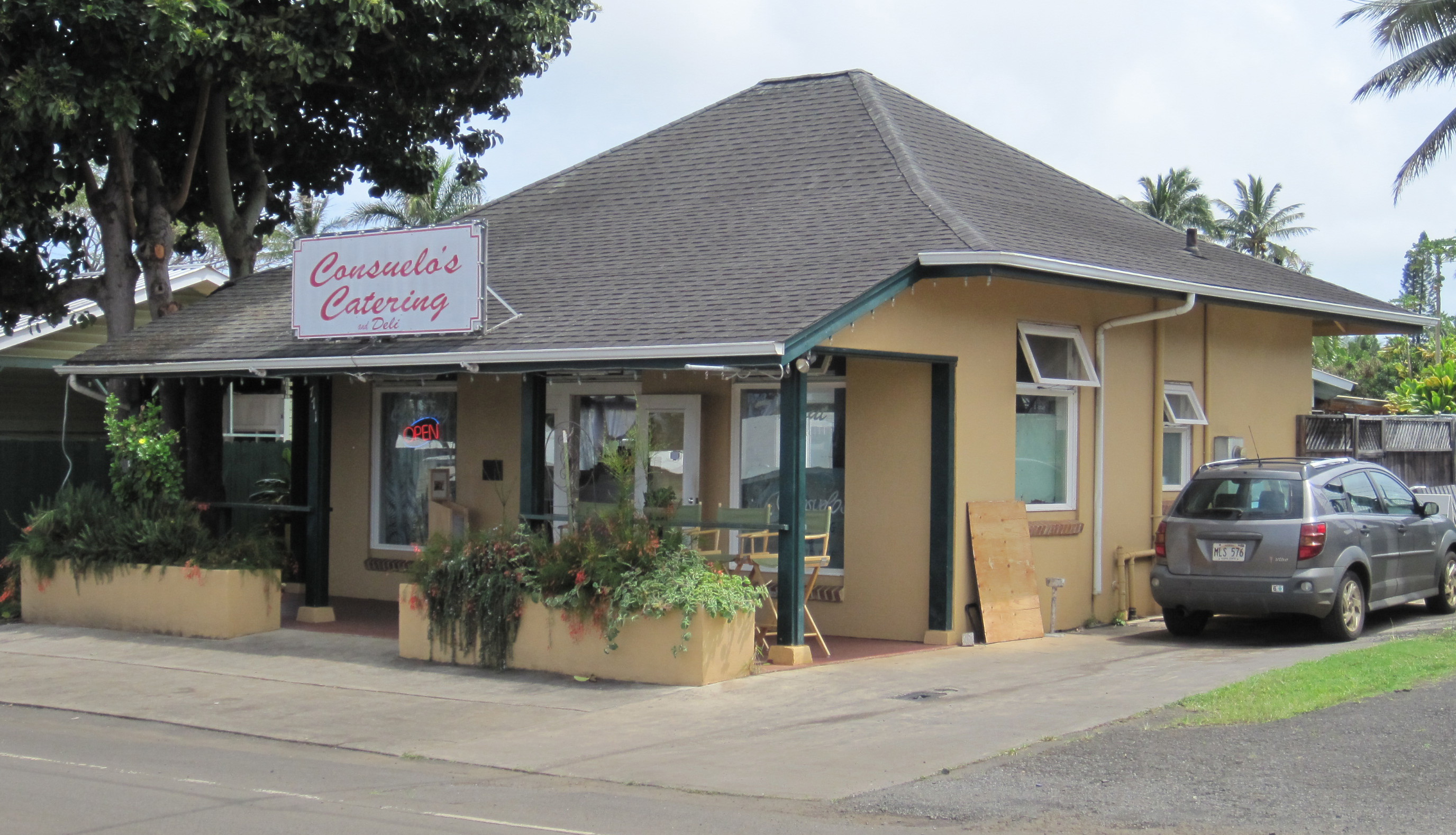 Corner view of former Bank of Hawaii, Haiku Branch, Haiku, Hawaii, built 1931, on National Register of Historic Places